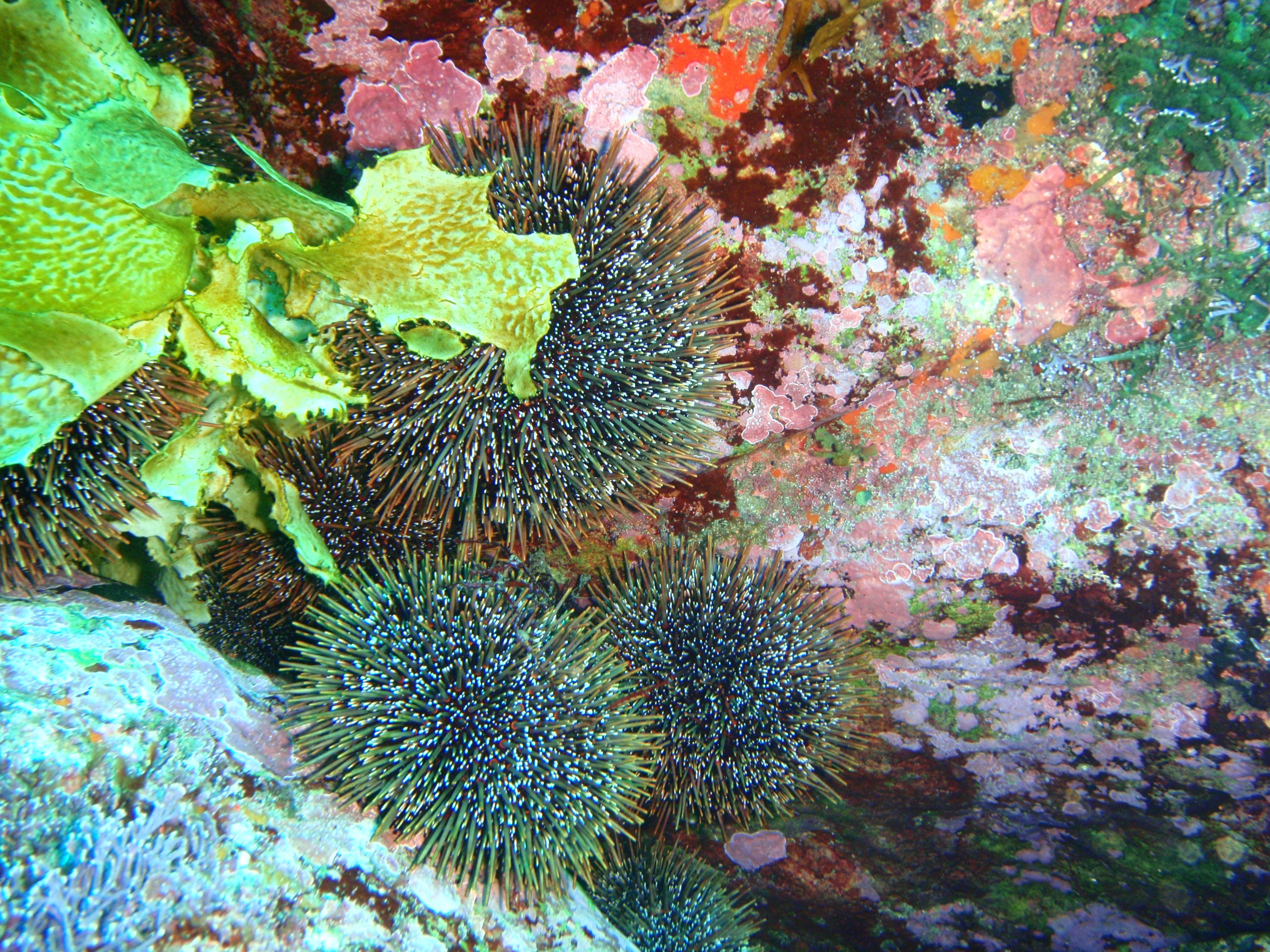 Kina urchins, South East Bay, Manawa Tawhi Three Kings Islands